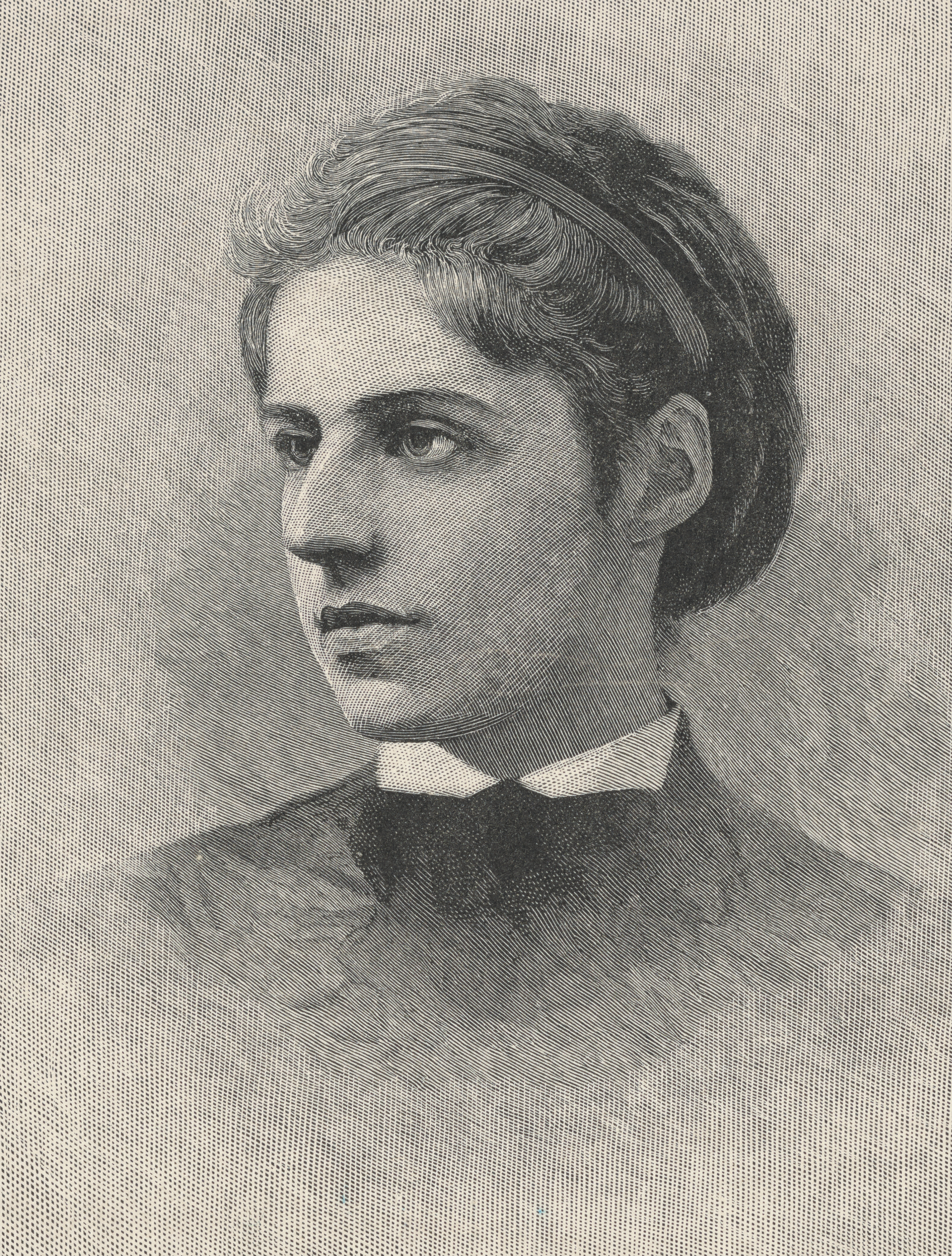 Emmalazarusengraving